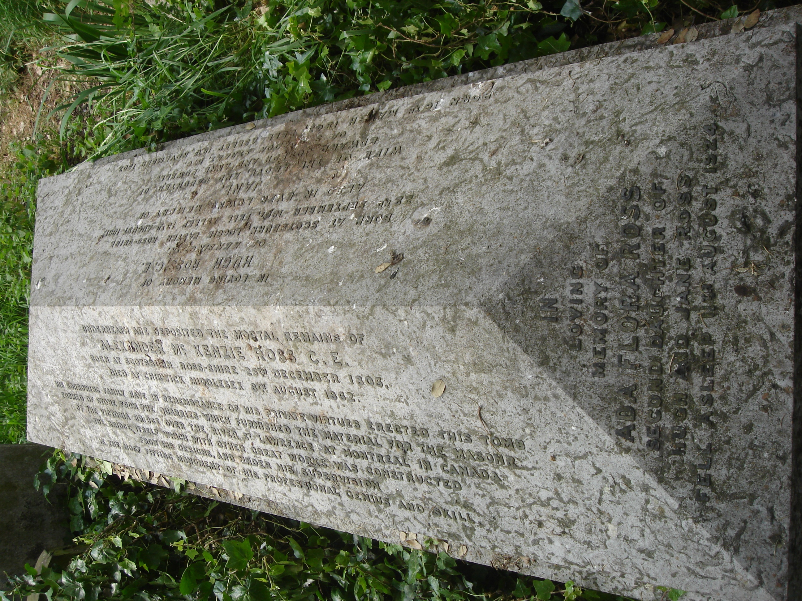 Alexander McKenzie Ross funerary monument, Brompton Cemetery, London